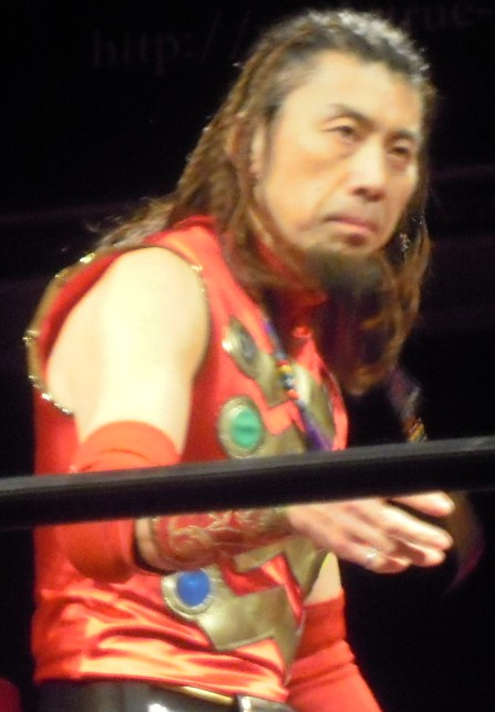 Japanese professional wrestler, Poison JULIE Sawada. Jan 8 2012, DDT Shin-Kiba 1st-Ring.